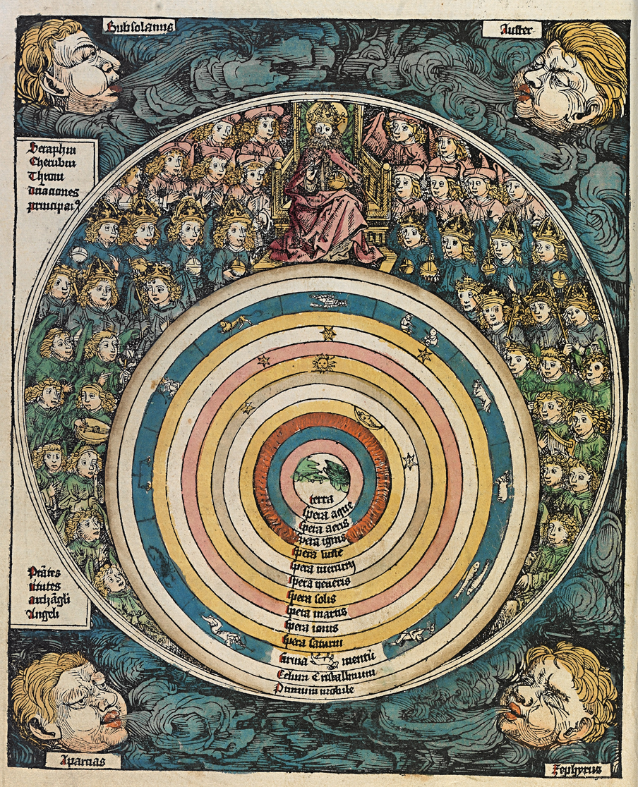 This is a part of a scan of an historical document: Title: Schedelsche Weltchronik or Nuremberg Chronicle